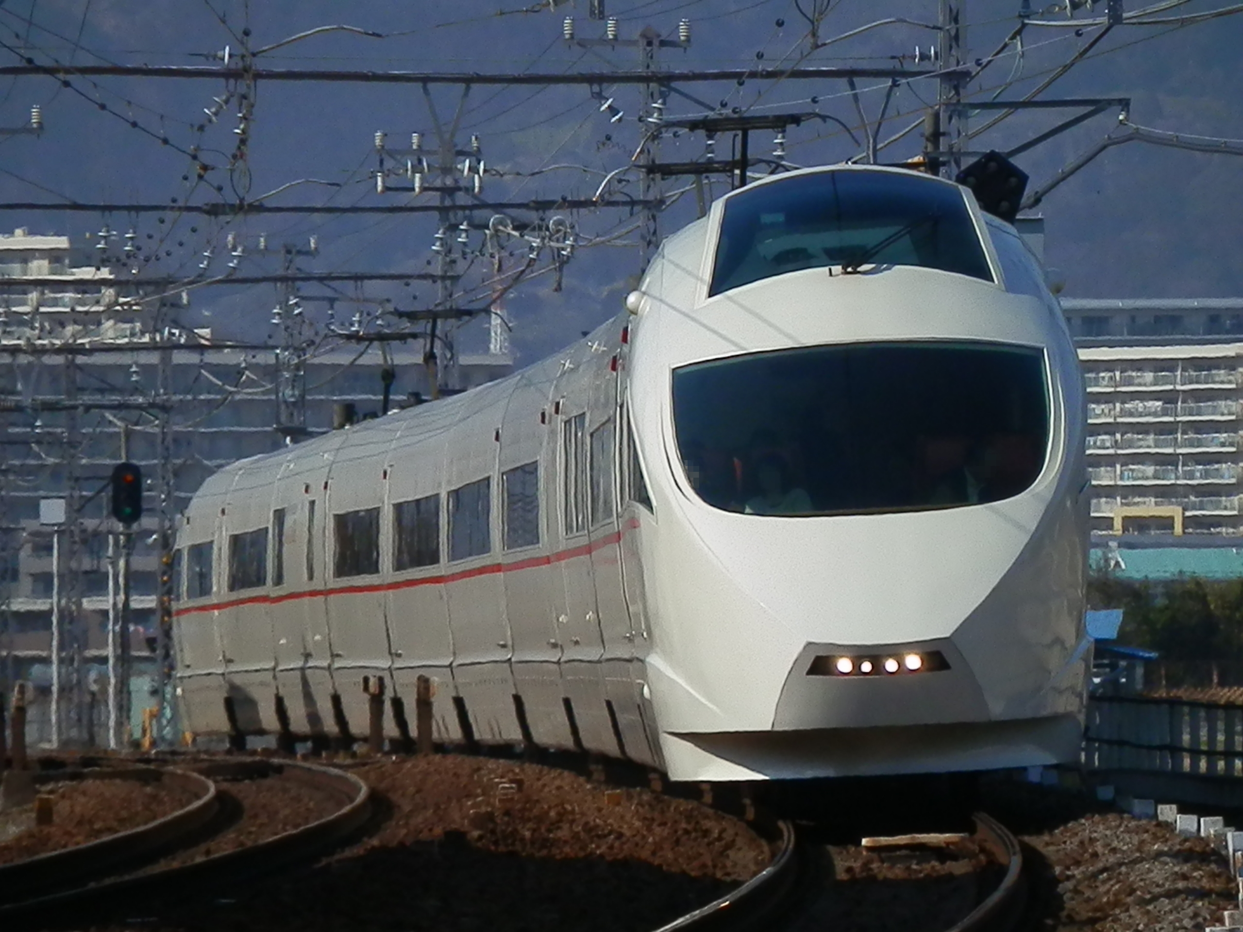 Odakyu Electric Railway Company, EMU Type 50000